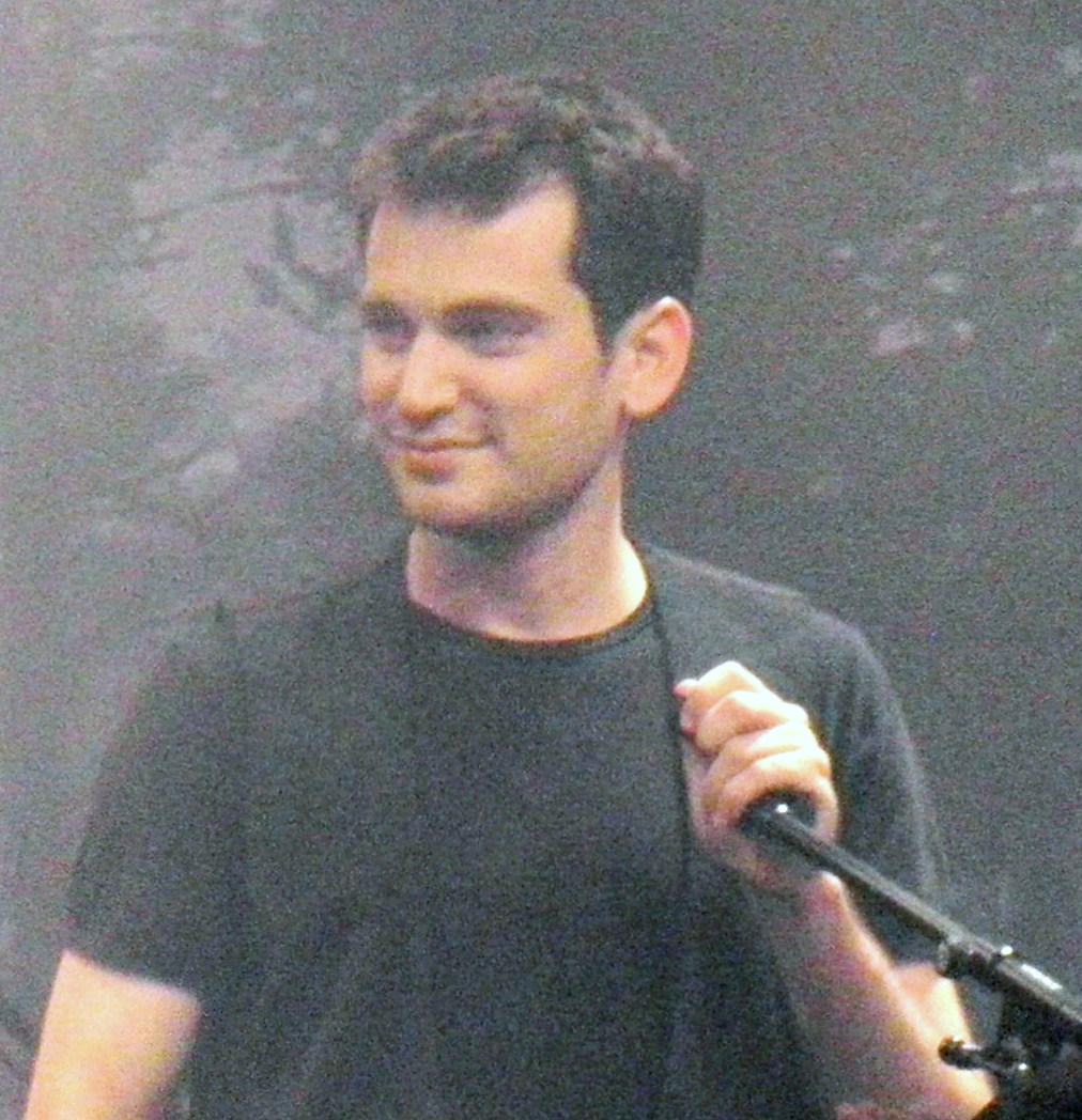 Yedidya Vital